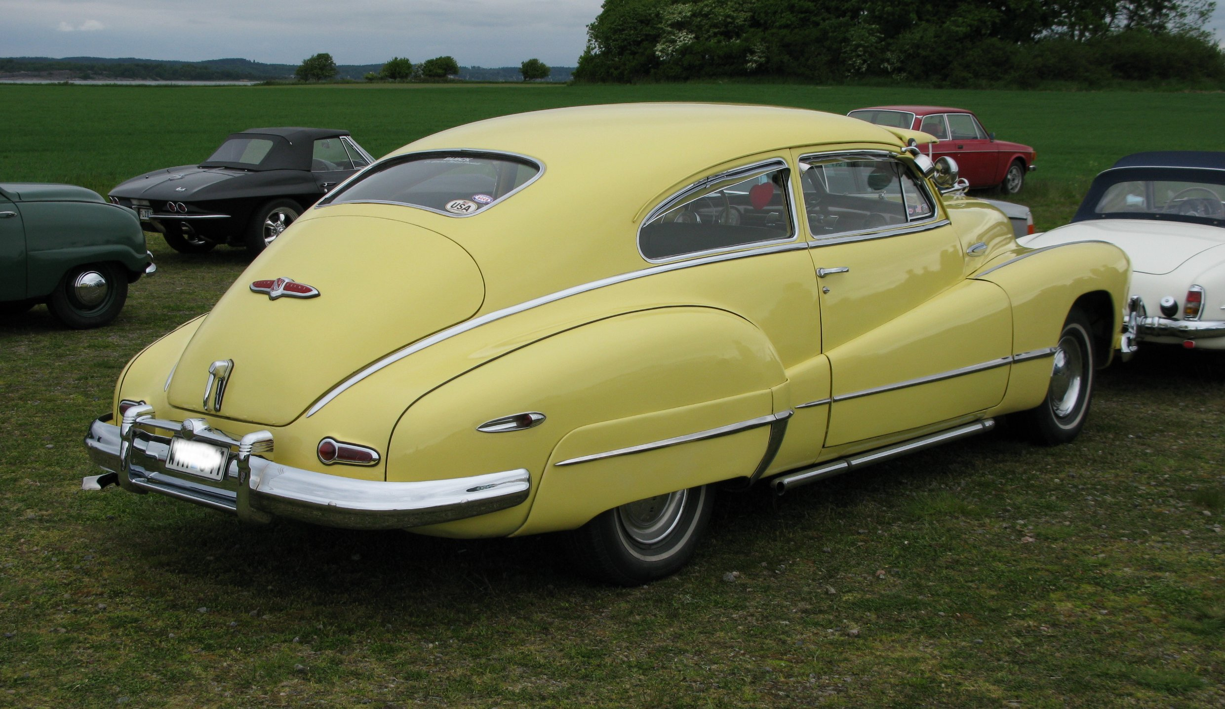 1947 Buick Sedanette.Event: Tjolöholm Classic Motor 2009